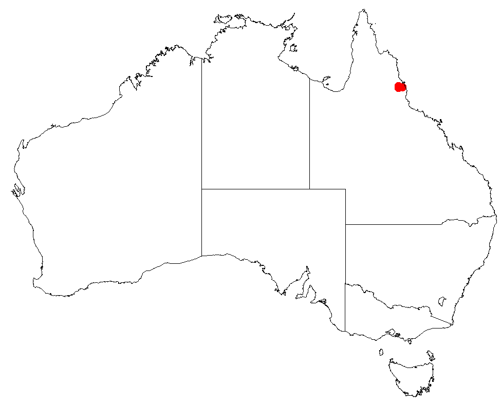 Parsonsia wildensis Occurrence data for Australia from Australasian Virtual Herbarium downloaded 22 December 2018